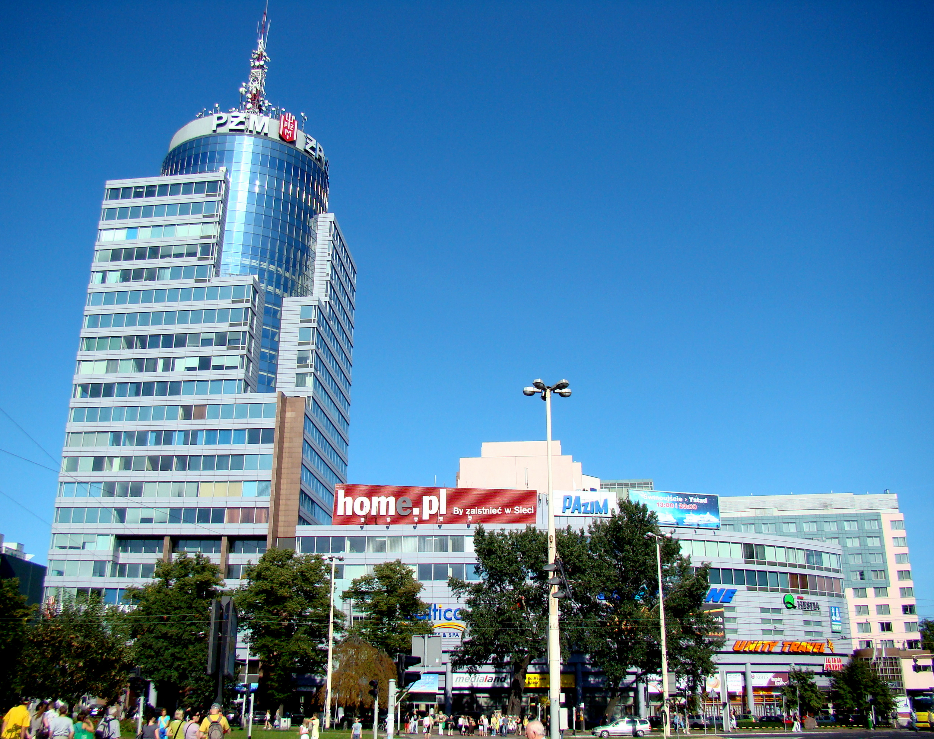 PAZIM skyscraper, Szczecin, Poland